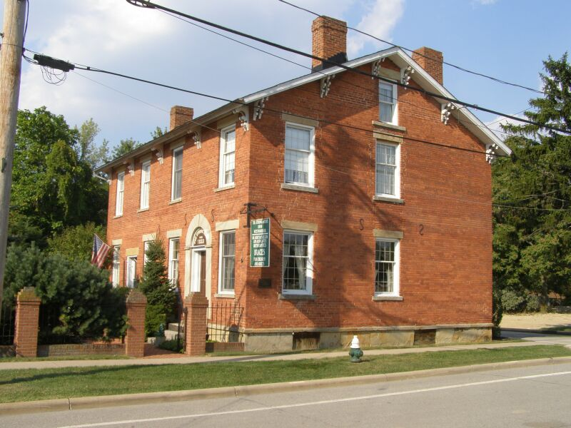 John Stoughton Strong House, National Historic Register, Strongsville, Ohio. On the north side of the square.